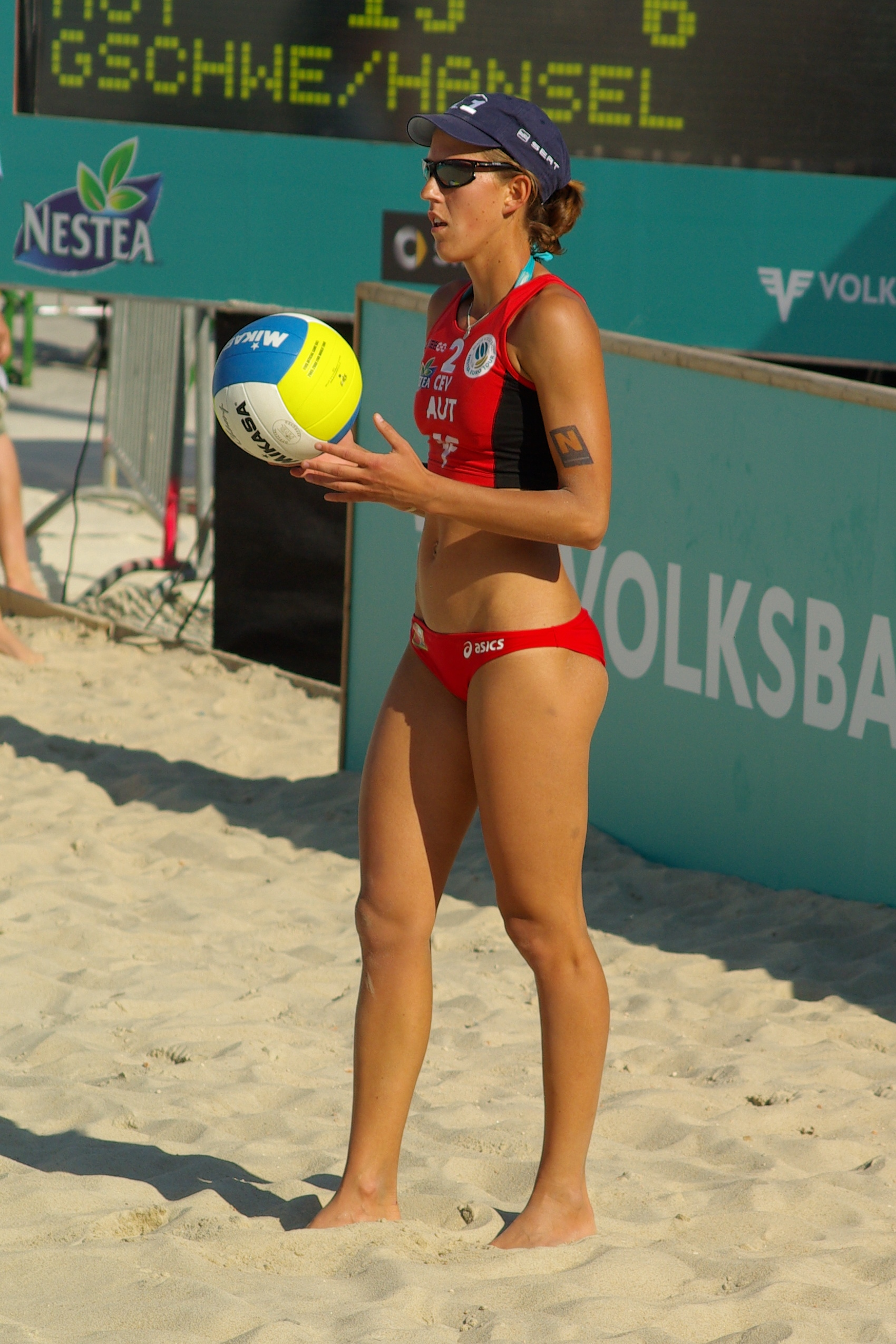 Austrian Beach volleyball player Doris Schwaiger at the European Championship Tour 2008 Austrian Masters in St. Pölten.